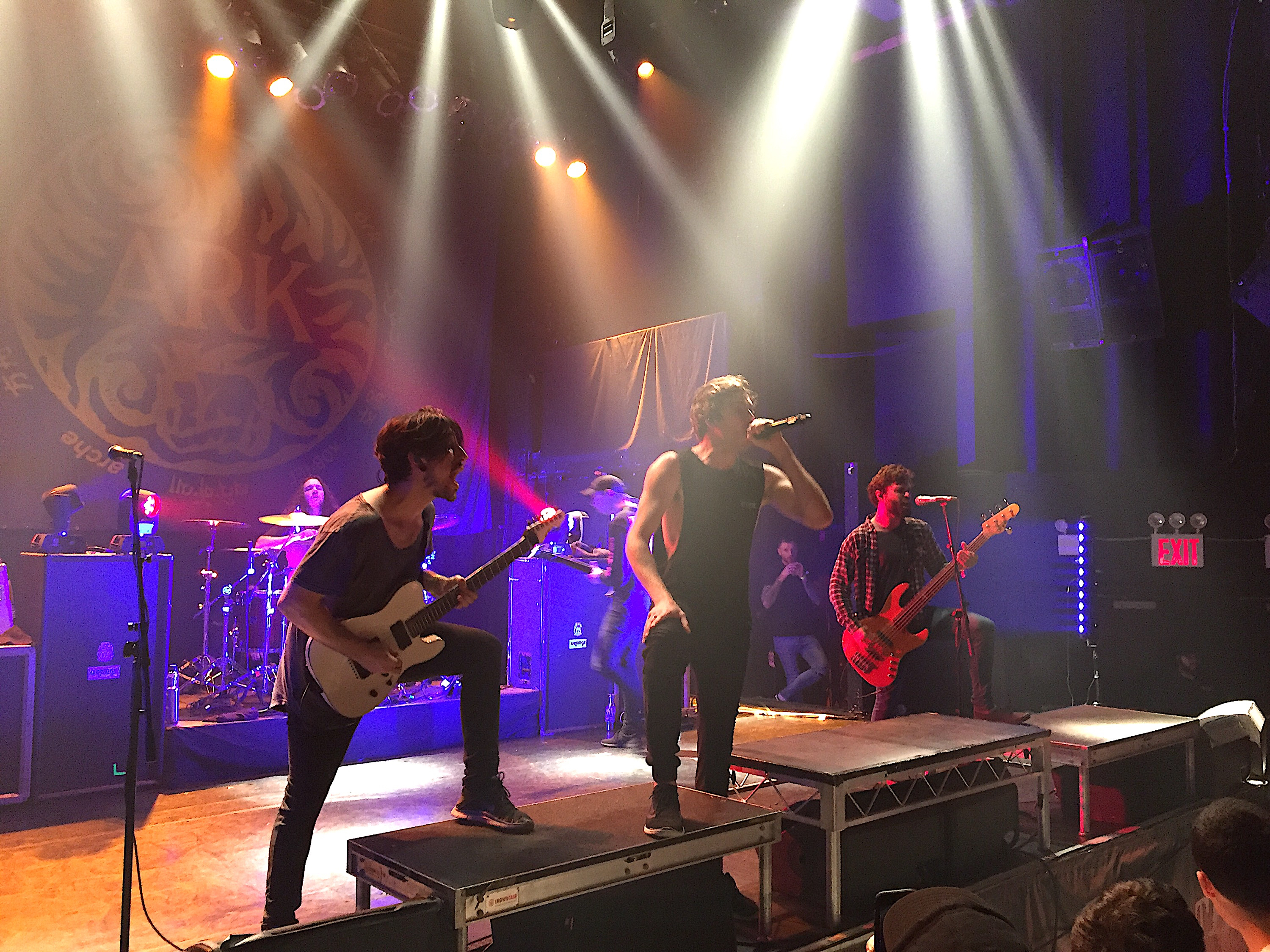 In Hearts Wake perform at Gramercy Theatre in New York City on 22 November 2017.